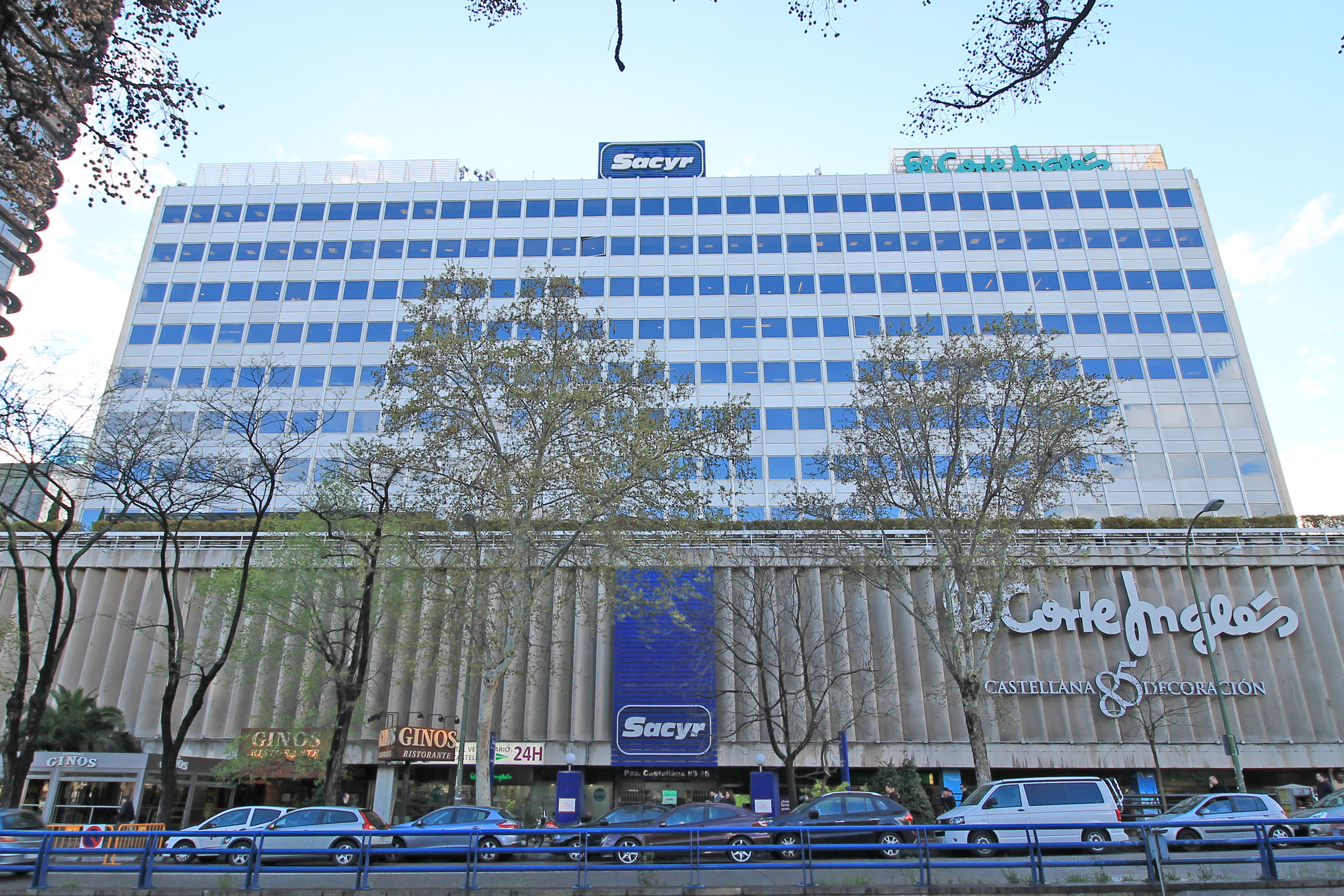 East façade of the building at 85 Paseo de la Castellana (avenue) in Madrid (Spain). It is home to Sacyr headquarters.